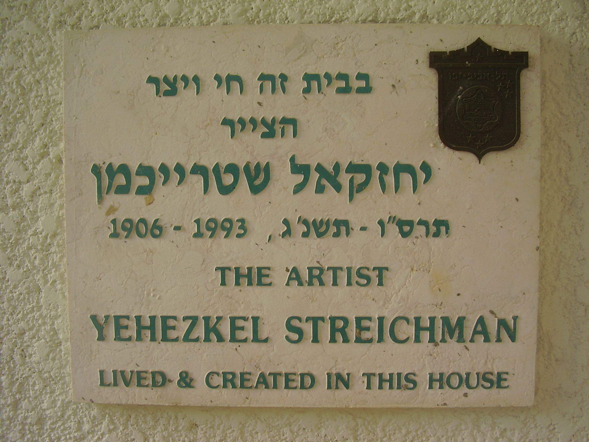 memorial plaque to the painter yehezkel streichman in tel aviv לוחית זיכרון לצייר יחזקאל שטרייכמן ברח' שלומציון המלכה 71 בתל אביב